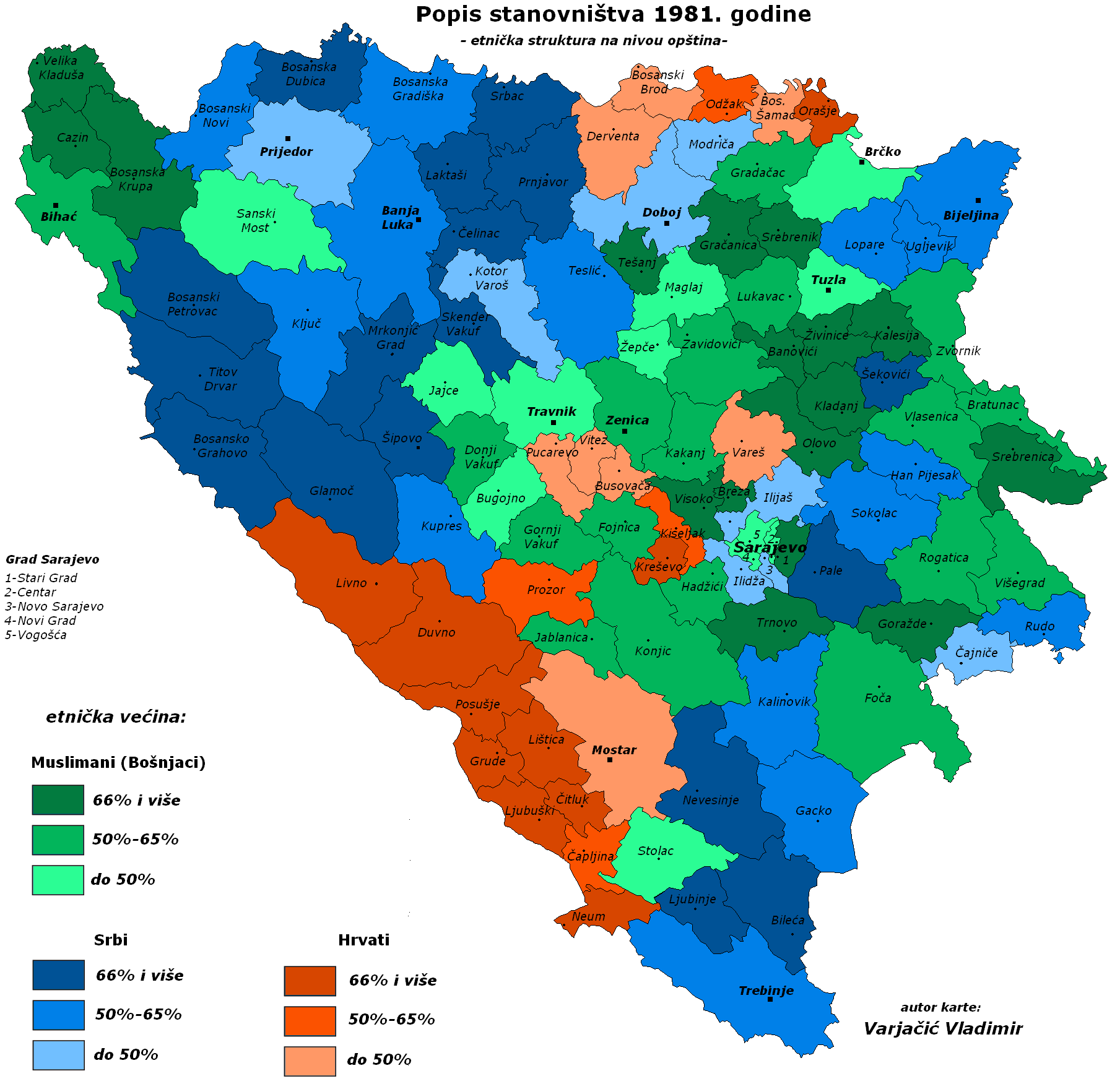 Ethnic map of Bosnia and Herzegovina from 1981. The author is Vladimir Varjarcic, and the source is the 1981 yugoslav population census. Map is uploaded on the Serbian Wikipedia, and this is the exact same image.